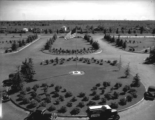 New Orleans: "WPA beautification of the airport greatly improved the facilities of the South's greatest airport." View from the tower of Shushan Airport (now New Orleans Lakefront Airport), 1937, looking south. Note at this time only a few houses along Hayne Boulevard and large undeveloped empty fields further south.